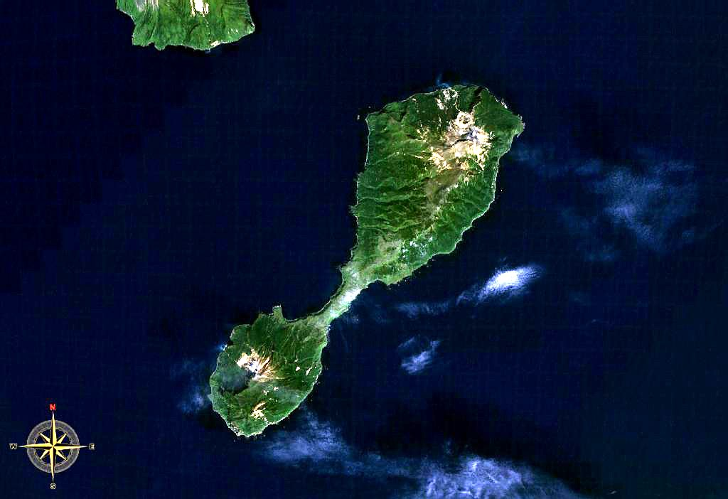 Shiashkotan Island, Kuril Islands, Russia. Satellite view.